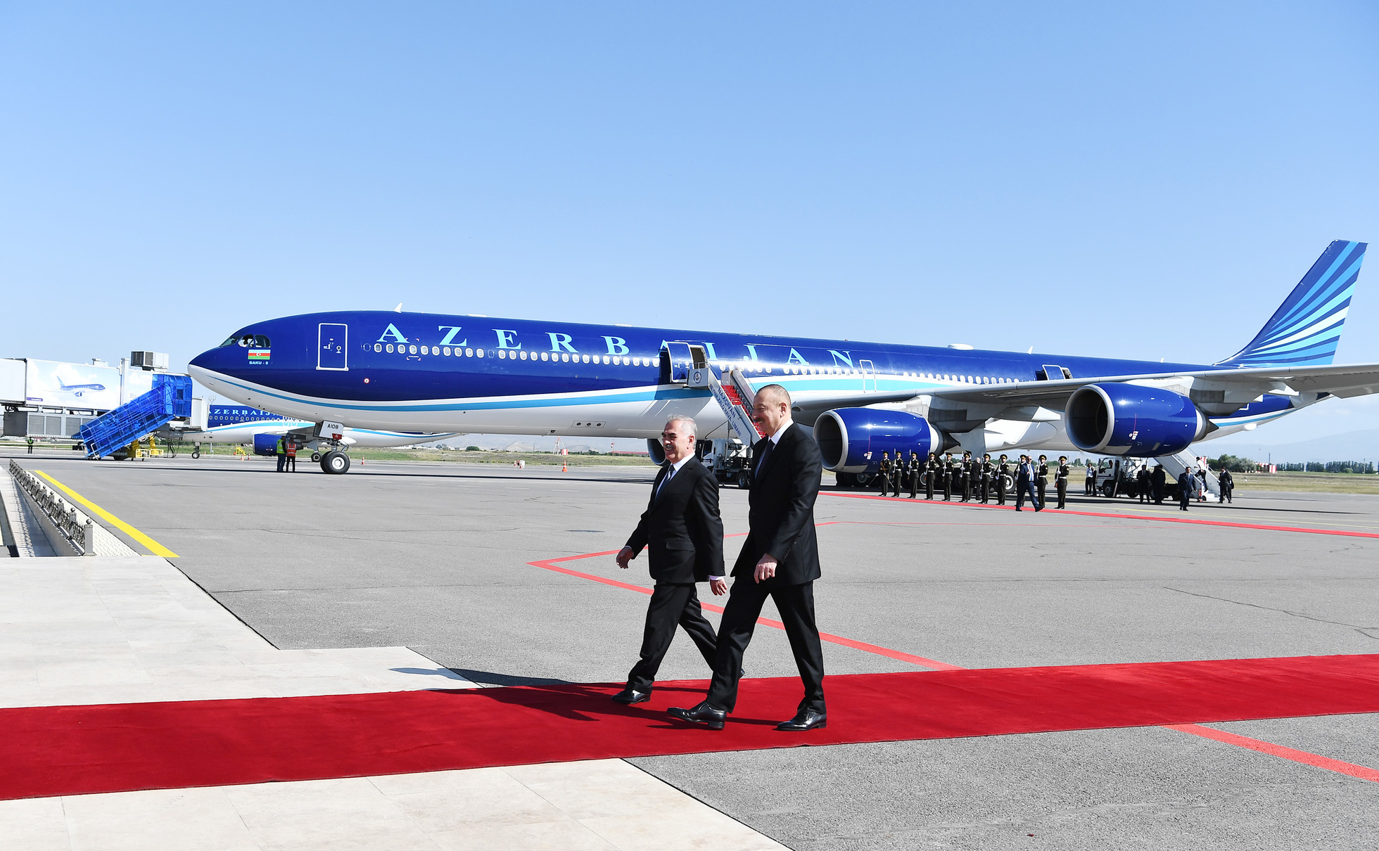 Ilham Aliyev arrived in Naкhchivan Autonomous Republic for visit